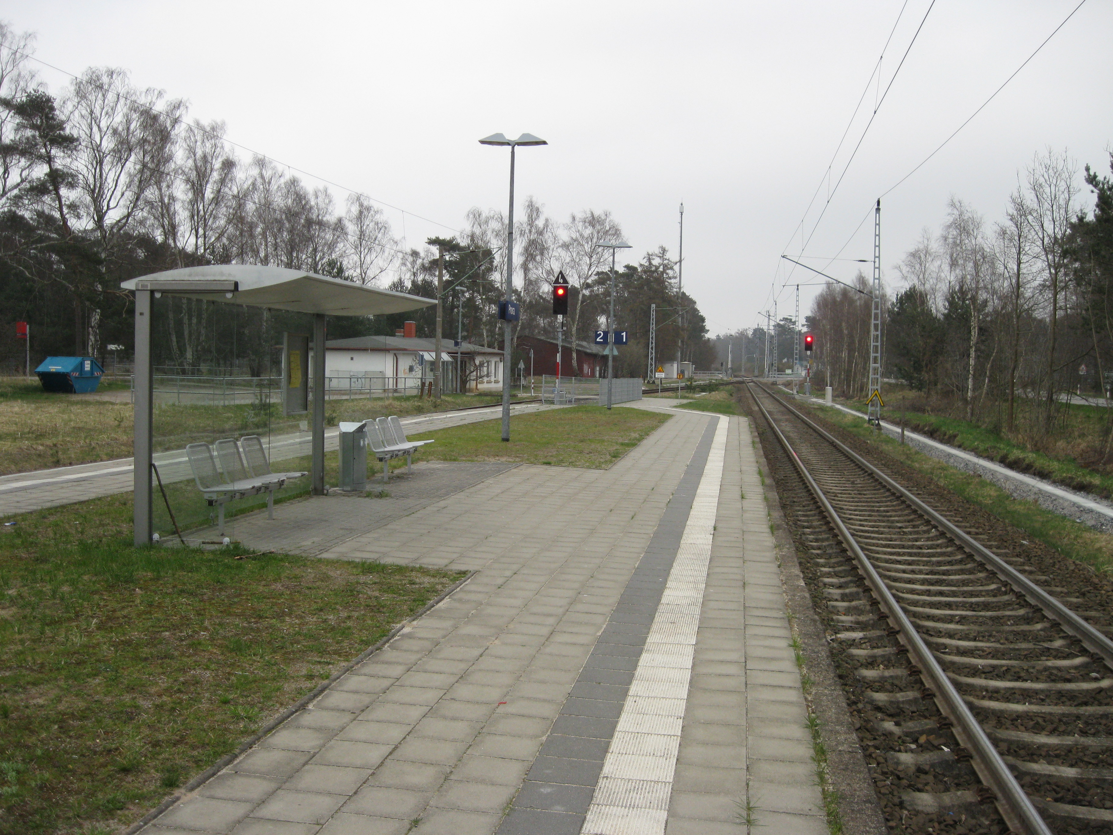 Railway Station Prora, Rügen, Mecklenburg-Vorpommern, Germany